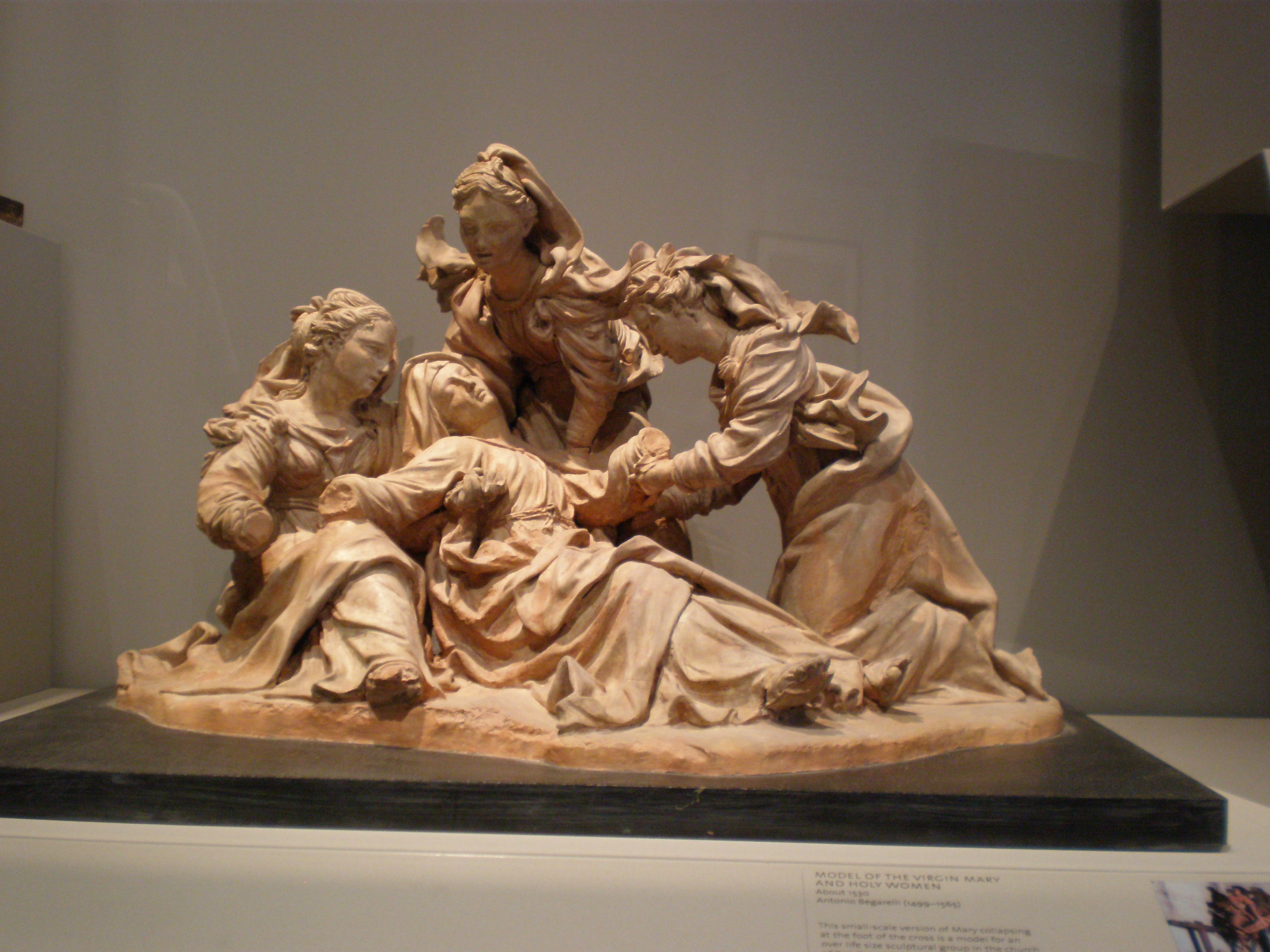 Statuette Model of the Virgin Mary and Holy Women Around 1530 Antonio Begarelli (1499–1565) DescriptionItalian sculptorDate of birth/death 1499 28 December 1565Location of birth/death Modena ModenaAuthority control : Q946899 VIAF: 89558783 ISNI: 0000 0000 8399 272X ULAN: 500024031 LCCN: n86037668 WGA: BEGARELLI, Antonio WorldCat terracottaQS:P186,Q60424; Italy, possibly Modena This small-scale version of Mary collapsing at the foot of the cross is a model for an over life size sculptural group in the church of San Francesco in Modena. Both were made of terracotta (literally �cooked earth�). The malleability of clay made it ideal for models, which were then fired to preserve them. Given by Dr W.L. Hildburgh, FSA Collection ID: A.25-1953 This photo was taken as part of Britain Loves Wikipedia in February 2010 by David Jackson.